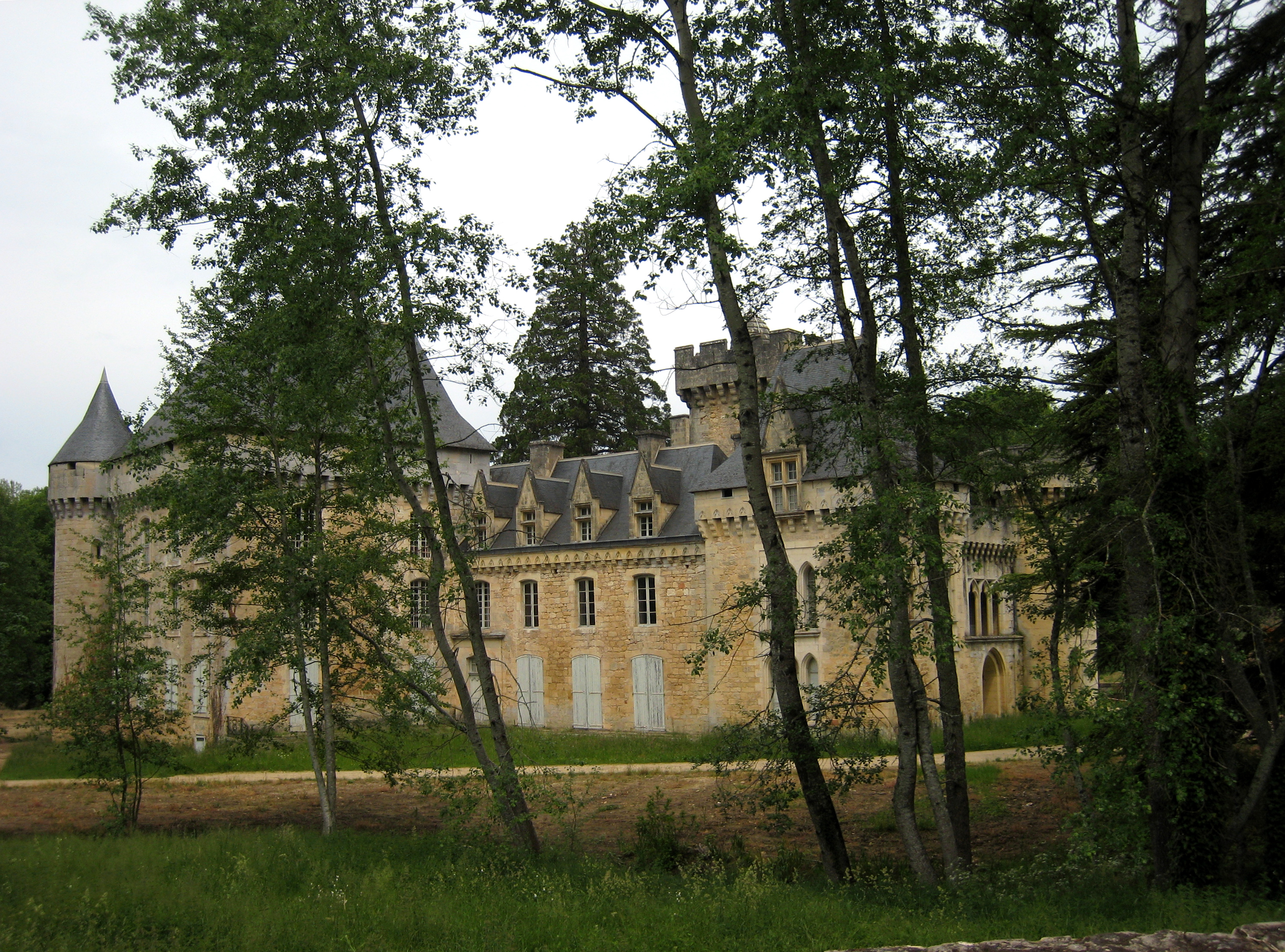 Château de Campagne, situated in the village of Campagne, Département Dordogne/France